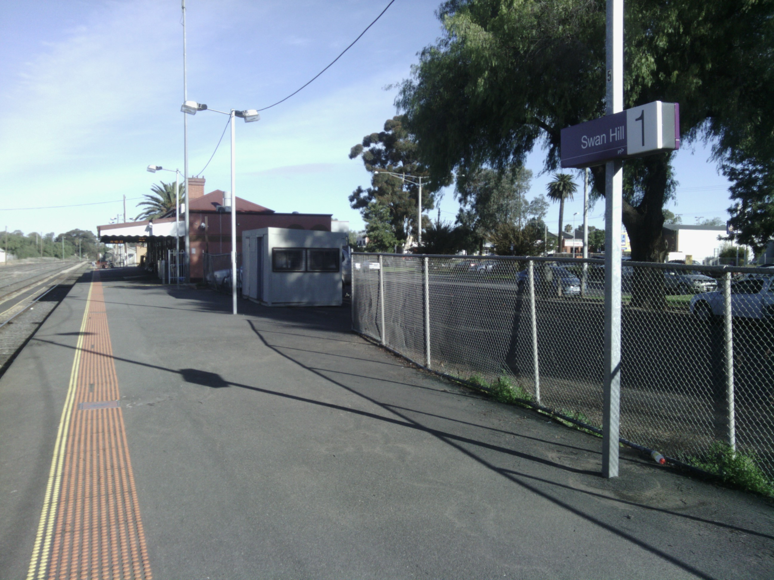 Swan Hill railway station platform